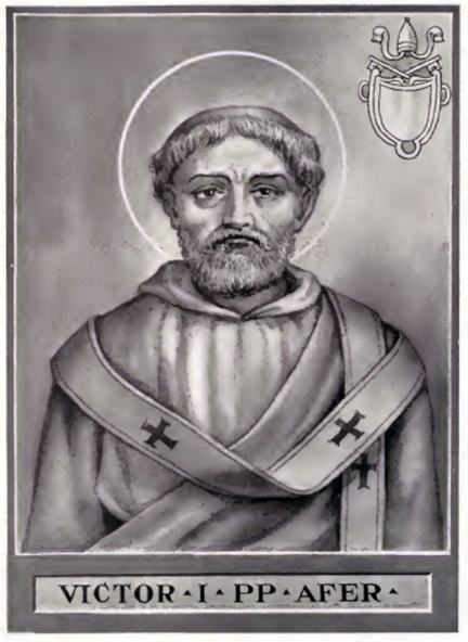 This illustration is from The Lives and Times of the Popes by Chevalier Artaud de Montor, New York: The Catholic Publication Society of America, 1911. It was originally published in 1842.